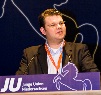 Ansgar Focke, German politician (Christian Democratic Union of Germany), member of parliament of Lower Saxony and representative of the constituency 64 Oldenburg-Land.